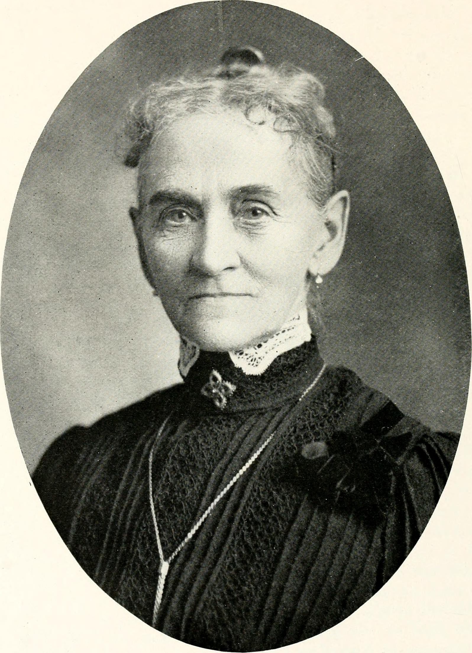 Mrs. Peter Truax. "Mrs. Truax, who survives her late husband, is one of the venerable pioneer women of Northern Wisconsin" Title: Wisconsin, its story and biography, 1848-1913 Year: 1914 (1910s) Authors: Usher, Ellis Baker, 1852-1931 Subjects: Publisher: Chicago and New York, The Lewis publishing company Text Appearing Before Image: ing factors in the business affairs ofthe Chippewa Valley. Death came to him at his country residenceon Truax Prairie, near Eau Claire, on March 18, 1909. A brief out-line of his career is consistently a part of Wisconsin history, and nocitizen of Eau Claire more justly deserves such a permanent memorial. Of eastern birth and family, Peter Truax was born in Steubencounty, New York, February 24, 1828, so that he was eighty-oneyears of age when called by death. During his boyhood his parentsmoved to Allegany county, New York, and it was in the schools ofNew York State that Peter Truax received all the book educationwhich was granted him, and which was limited in accordance withthe facilities of all public education in his time. In 1853 the familycame west to Wisconsin, settling in Walworth county. The fatherof Peter Truax died in Eau Claire when more than one hundredyears of age. Peter Truax had four brothers, all now deceased,namely: John Truax, of Menominee; Nathan, also of Menominee; Text Appearing After Image: wy (E^h ZZ^A^L